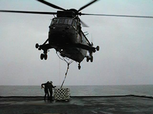 A Seaking HC.4 of 846 NAS performing load lifting ops during Ex. Ocean Wave 97